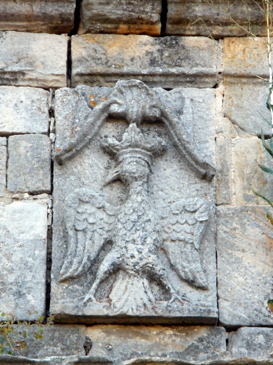 Emblema de Aguilar de Campoo (Palencia, España), en la Puerta del Portazgo de la población